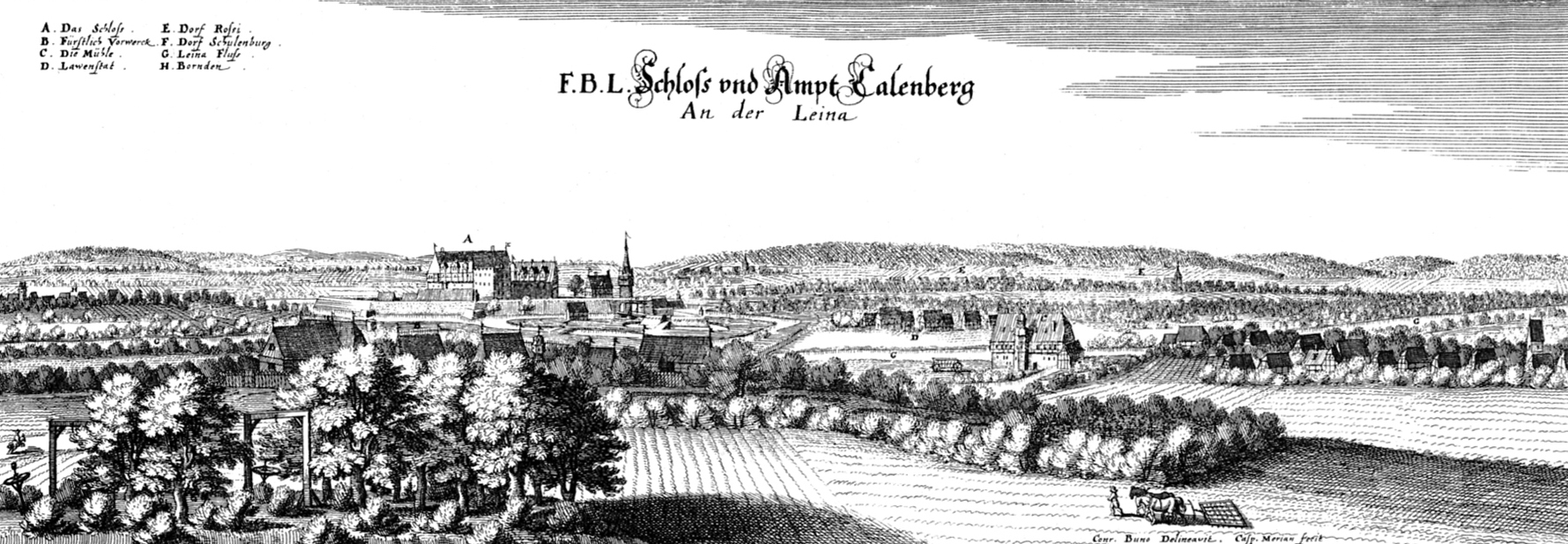 The castle Calenberg near Hanover in Schulenburg 1654 by Caspar Merian based on an original by Conrad Buno